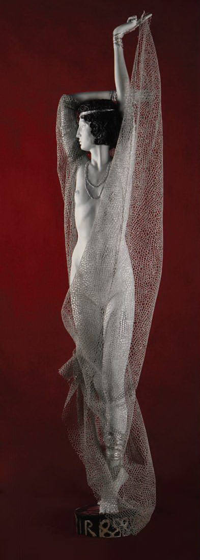 Korzhev Ivan. Ida.